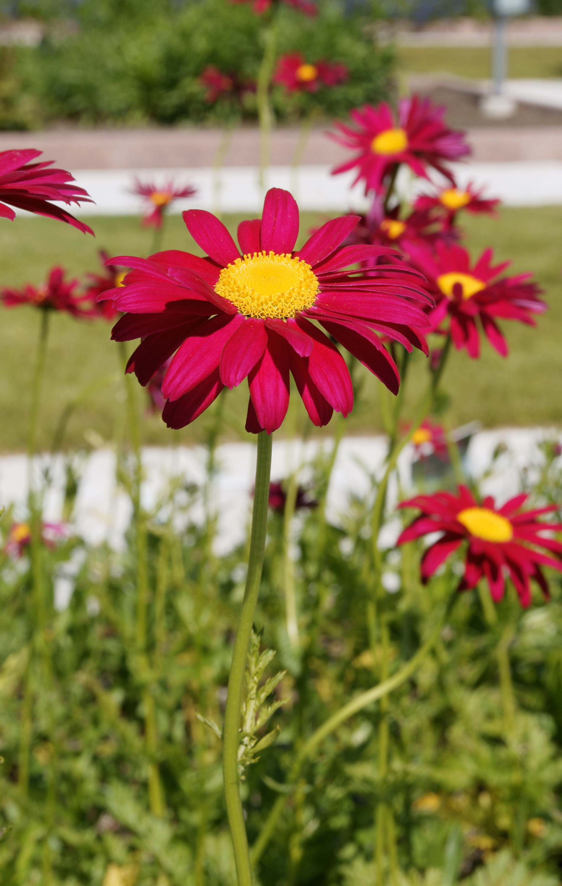 Painted Daisy (Tanacetum coccineum) at exhibition garden of Hanhiluoto, Pori.